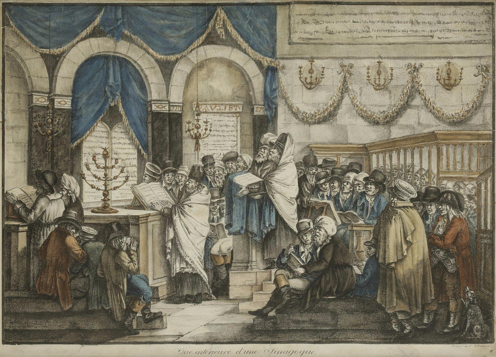 Interior of a synagogue (probably Nancy), color lithograph by Charles Philibert de Lasteyrie, ca 1816. Jewish prayers in a synagogue.